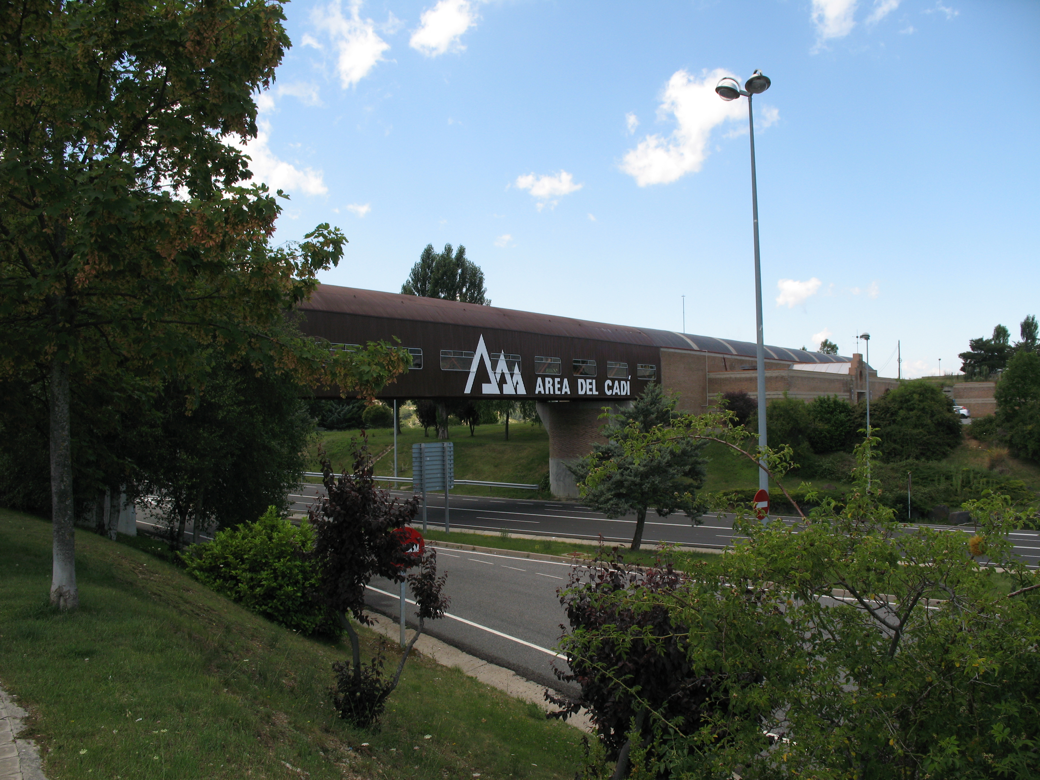 Rest area on the C-16 road near the Cadi Tunnel, before the 2011 renovation works.